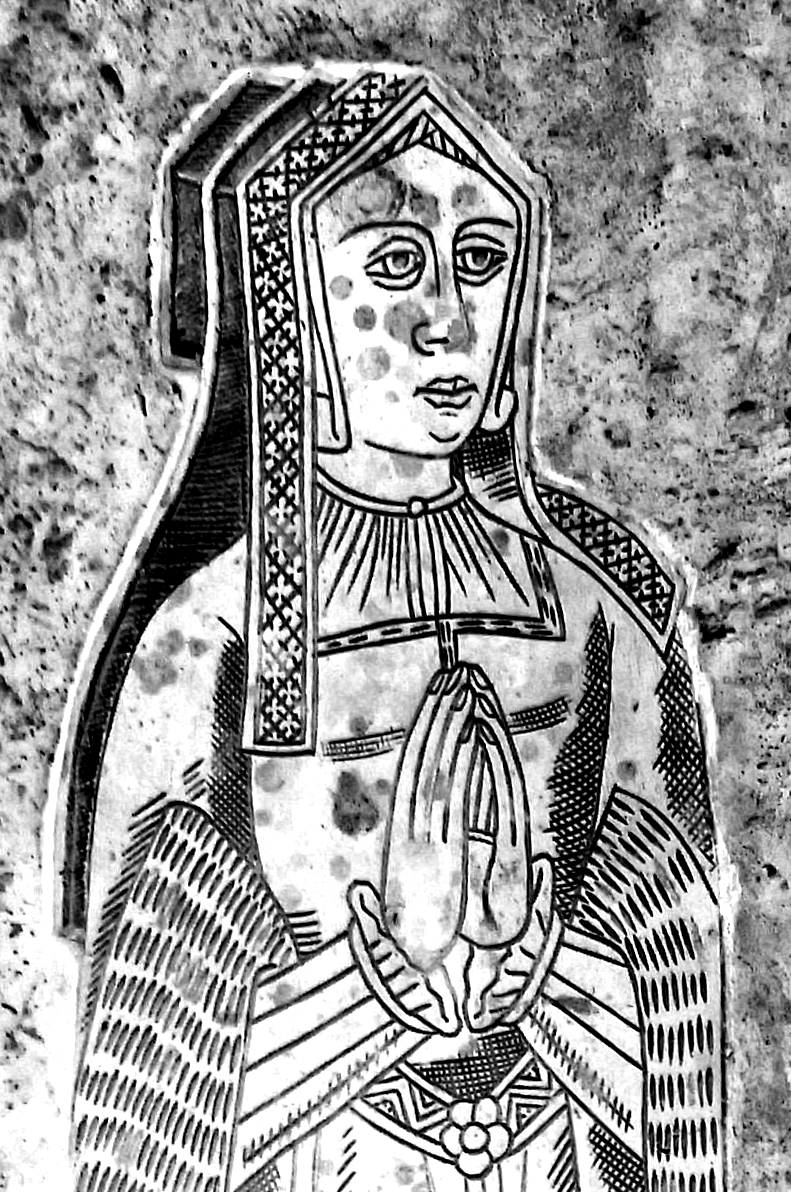 Detail of monumental brass of Honor Grenville (d.1566) on chest-tomb of her first husband Sir John Bassett (1462-1529) of Umberleigh. Atherington Church, Devon